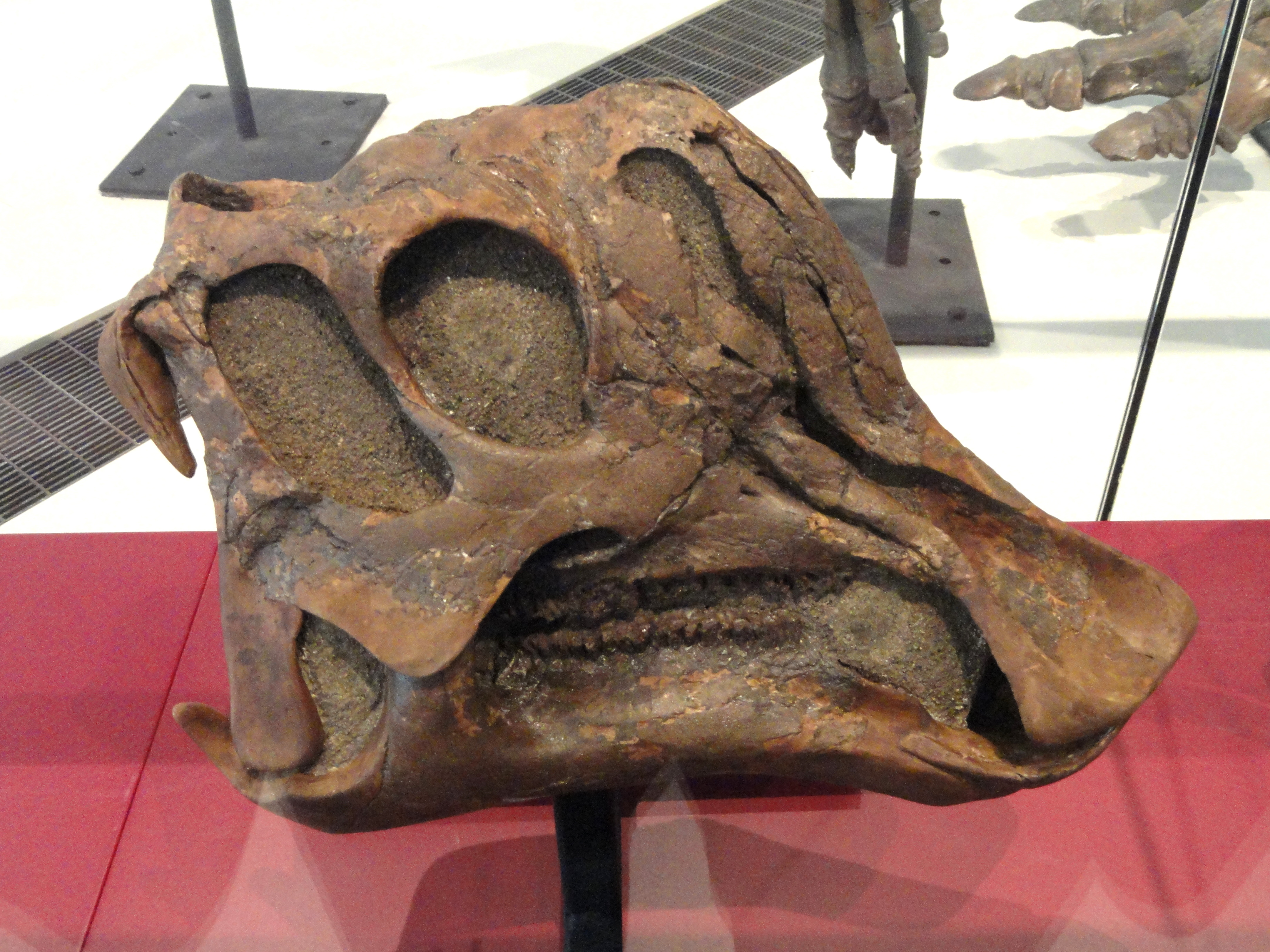 Exhibit in the Royal Ontario Museum, Toronto, Ontario, Canada. This exhibit is old enough so that it is in the public domain, and photography was permitted in the museum. I took this photograph and release it into the public domain.